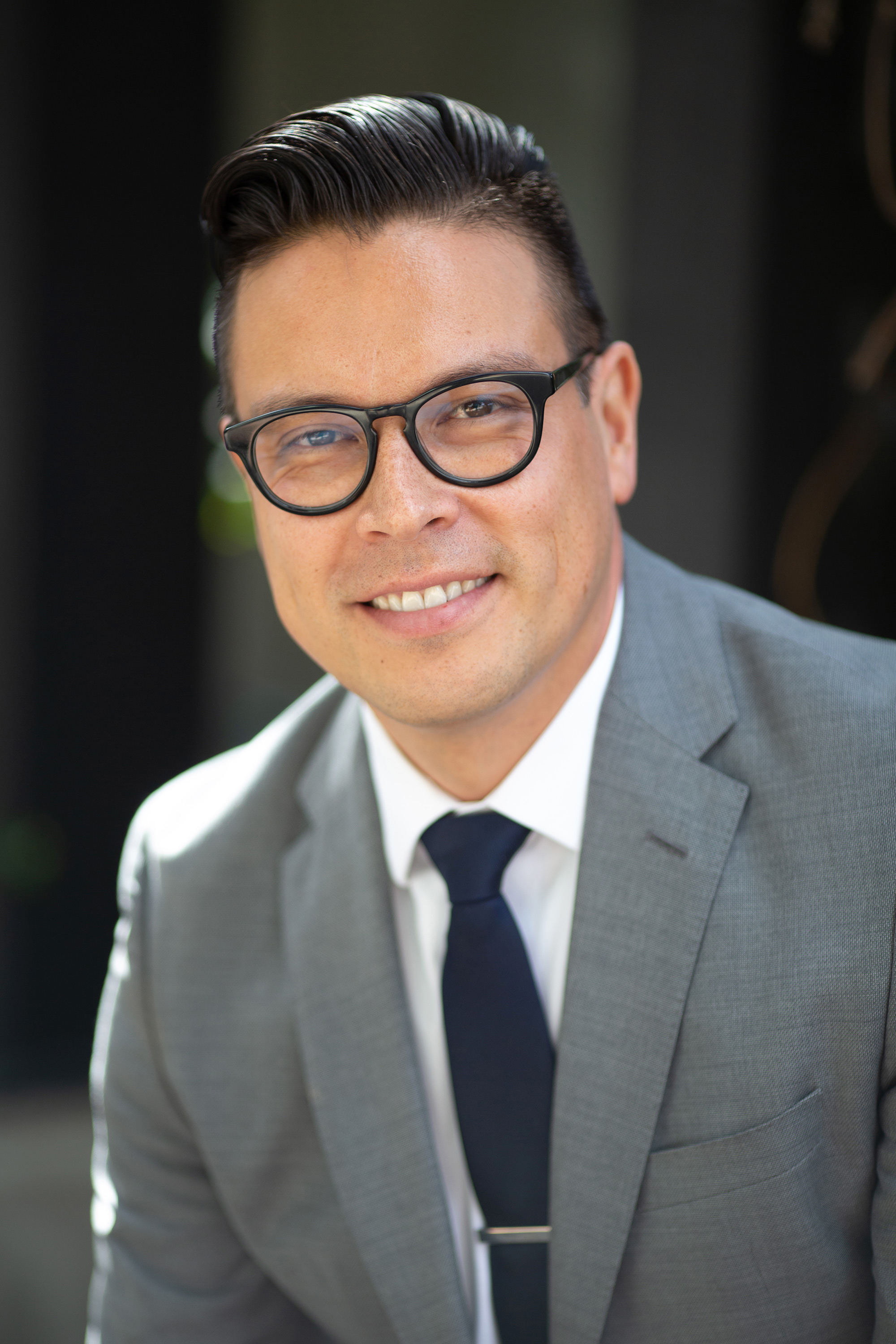 Christopher R. Derickson, Westbank First Nation Chief